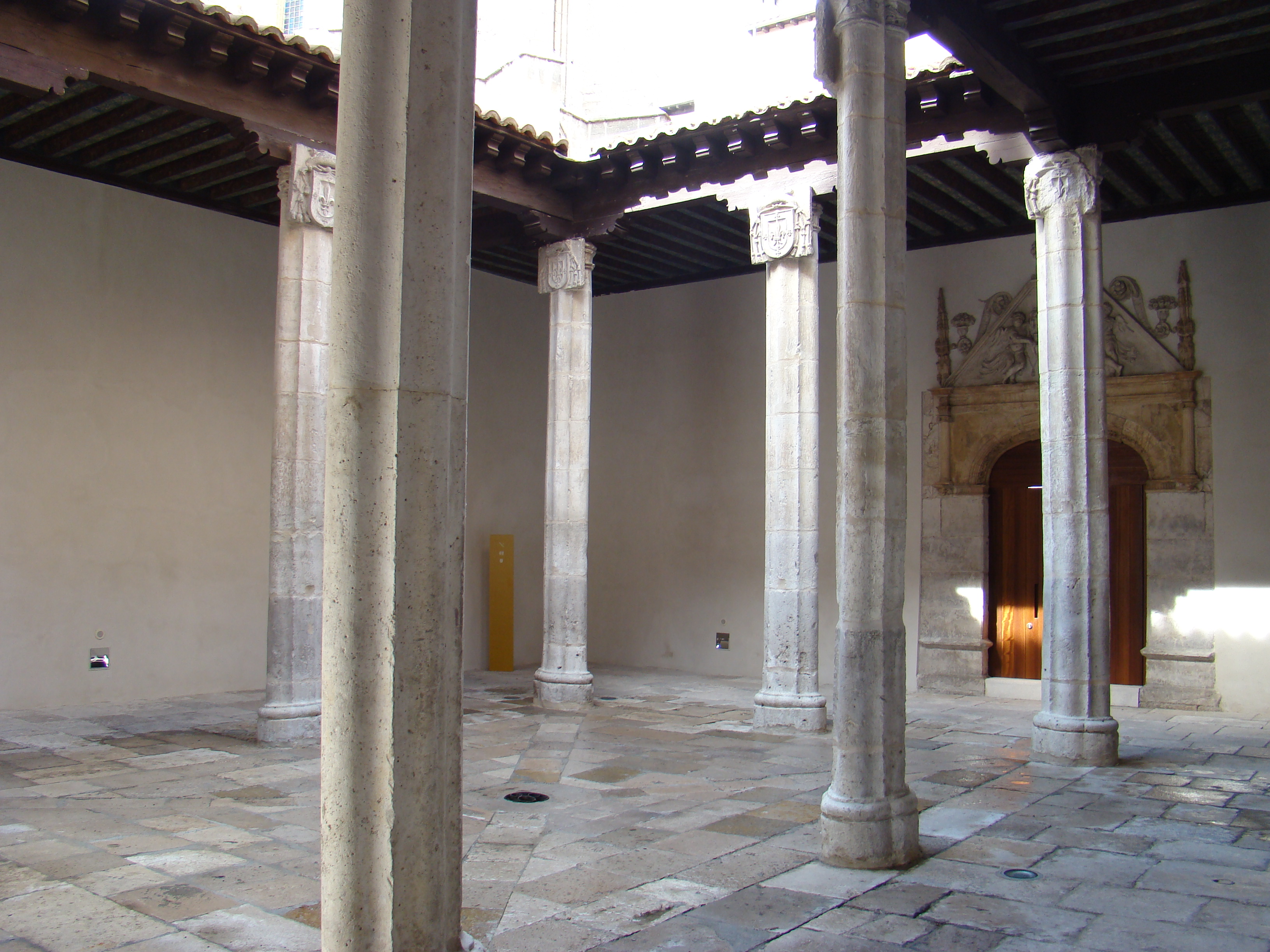 Smaller entrance yard to the building of the college of San Gregorio where the National Museum of Sculpture is located in Valladolid, Spain.